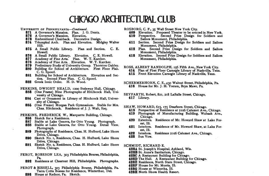 an image from the catalog of the 16th annual exhibition of the Chicago Architectural Club showing the entry for Robert Seyfarth, architect.